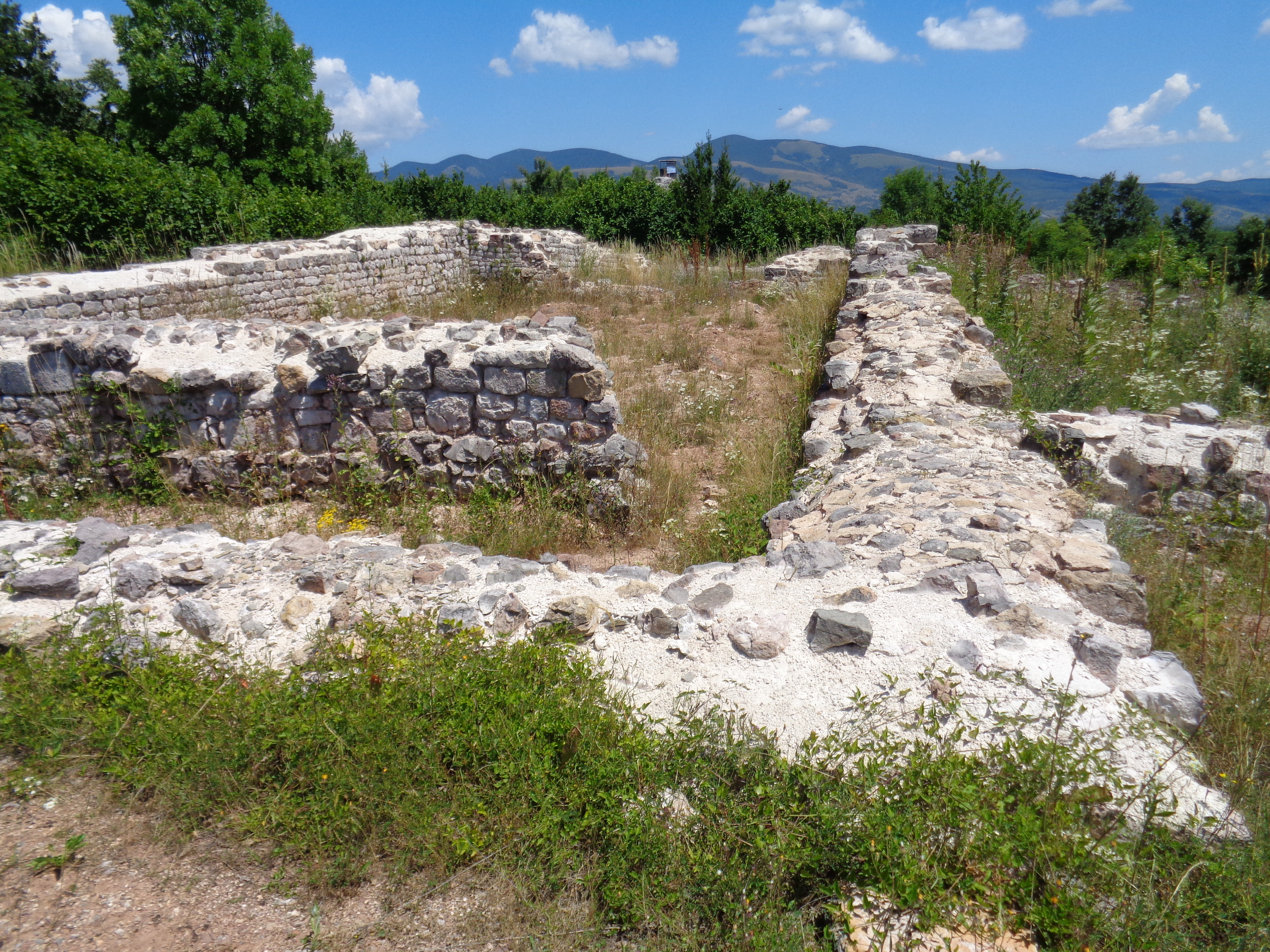 Ruins of the former Corbavian Cathedral of St. James in Udbina, Lika-Senj County, Croatia